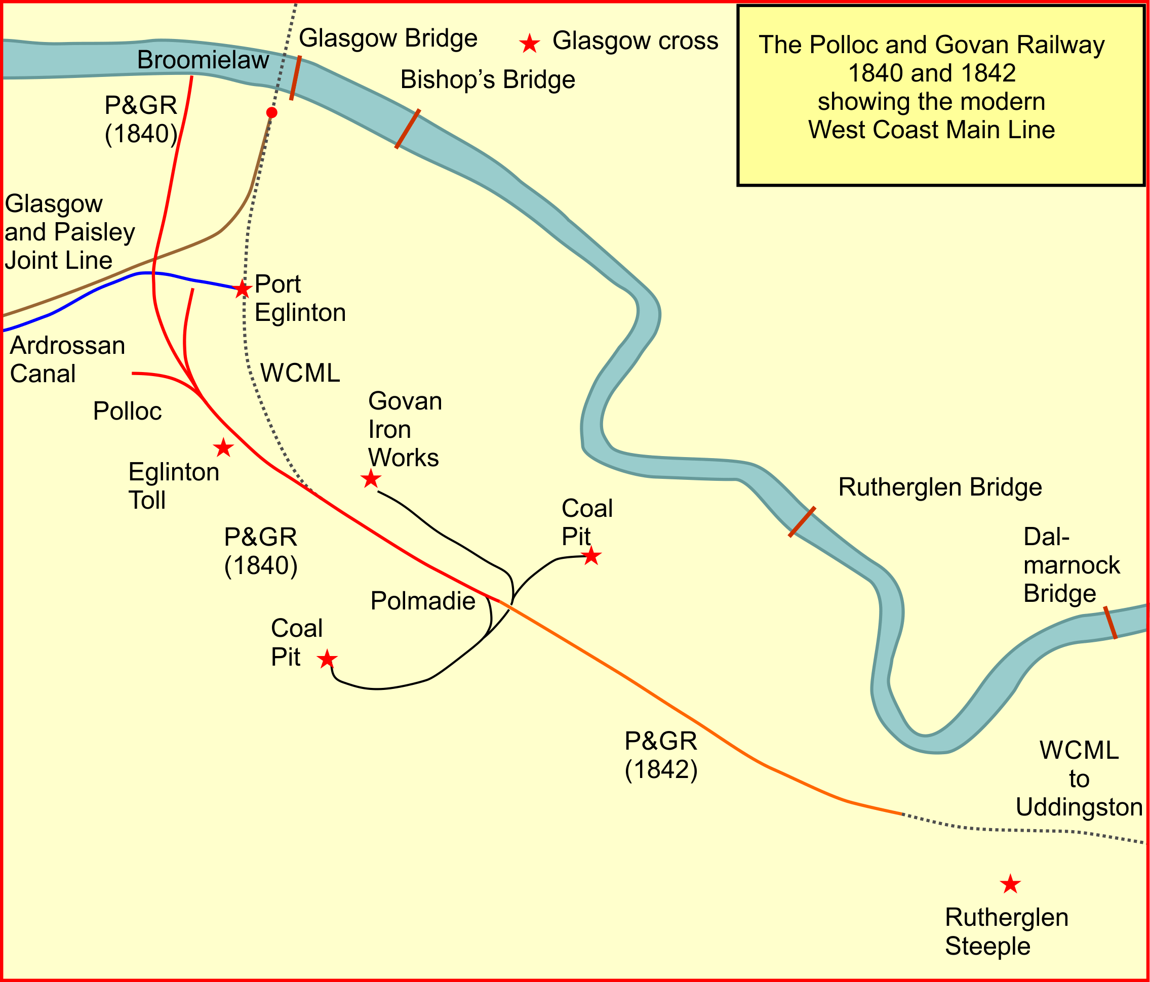 Syste diagram of Polloc and Govan Railway 1842